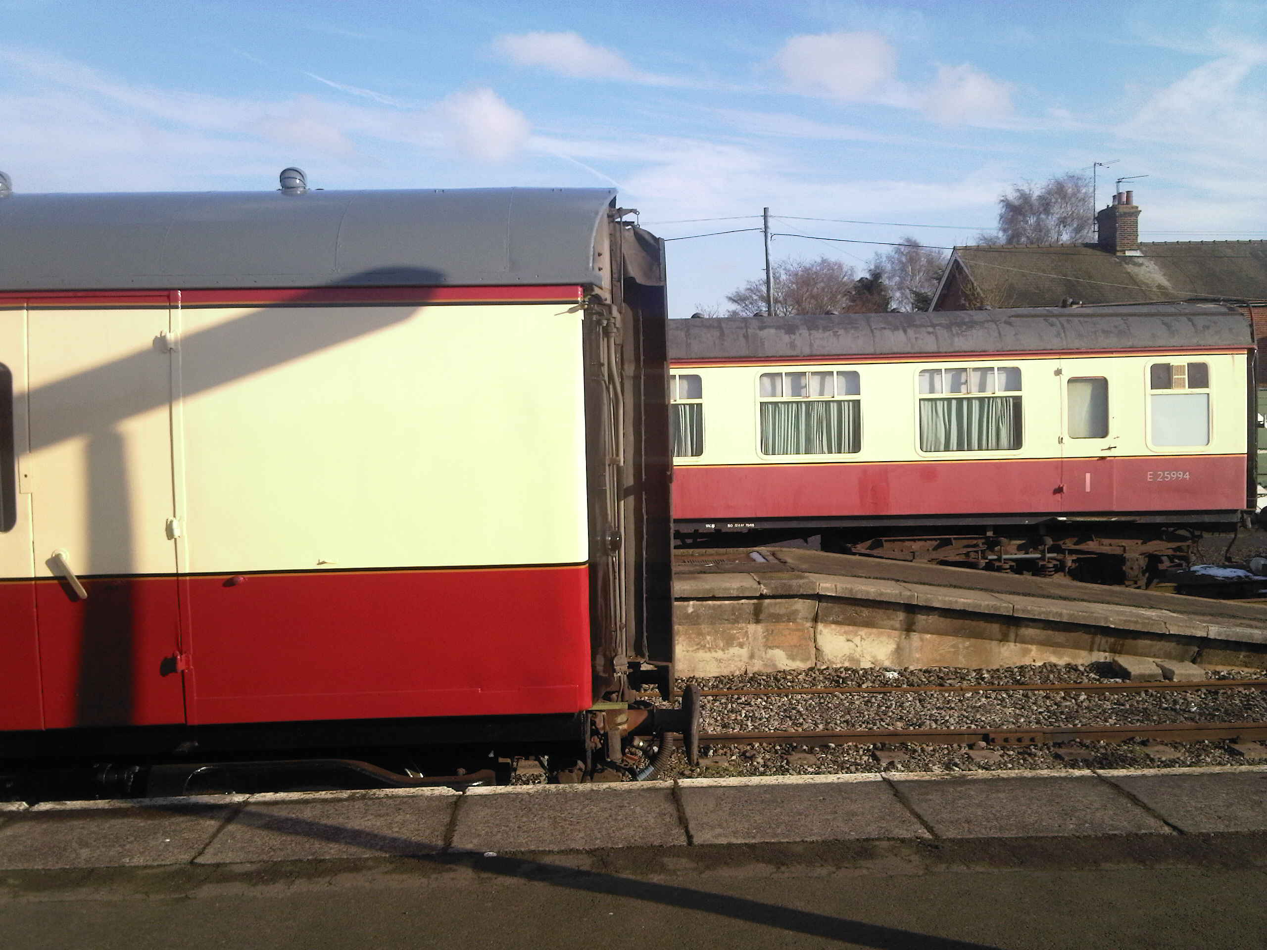 Mk1 carriages on the Mid-Norfolk Railway